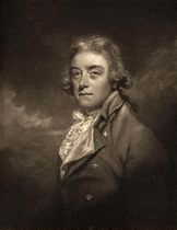 Sir Brooke Boothby 6th Baronet (1744-1824). Sir Brooke Boothby was a minor poet and landowner in Derbyshire. He was part of the many people in the intellectual circles of Lichfield who welcomed Jean-Jaques Rousseau to England in 1766-7. After his return from exile Boothby visited Rousseau in Paris where he obtained a copy of his autobiography. Boothby was instrumental in the book being published in Lichfield in 1780 after the authors death. Many well-off people had their portraits rendered by Joseph Wright of Derby and Boothby's unusual portrait shows a copy of that book.